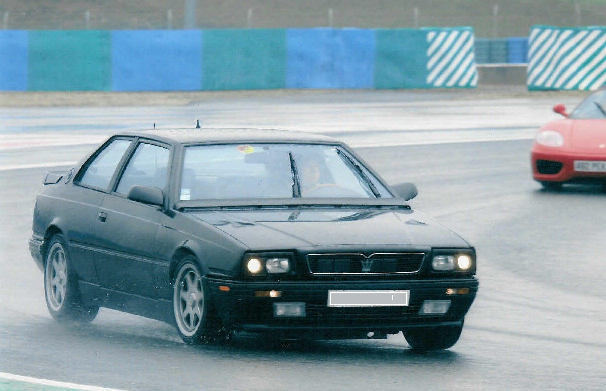 Maserati Racing 1991, Circuit de Magny-Cours 2004